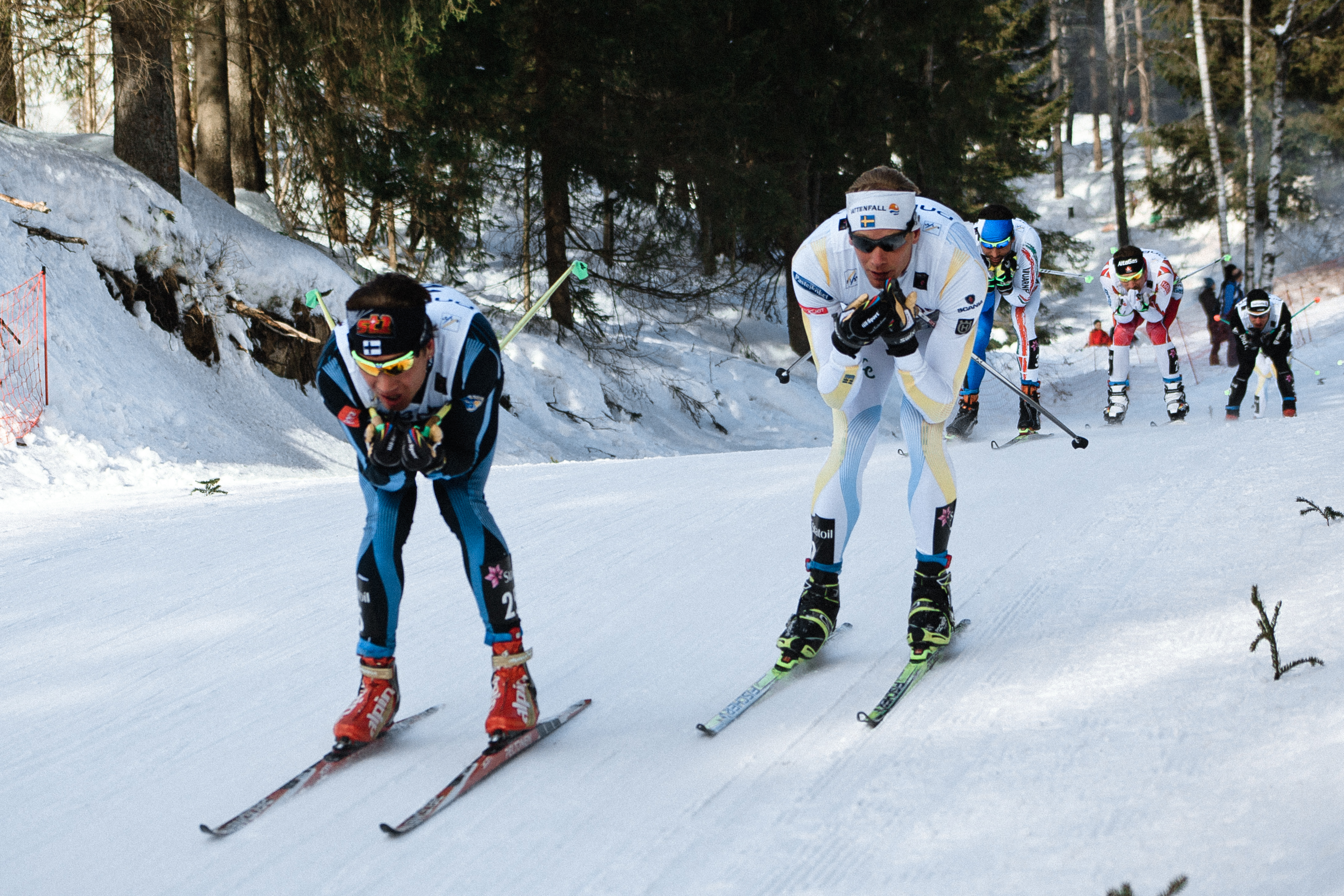 Ville Nousiainen, Finland (left) and Daniel Richardsson, Sweden (right) at the 50km FIS 2011 World Championship race in Holmenkollen, Norway